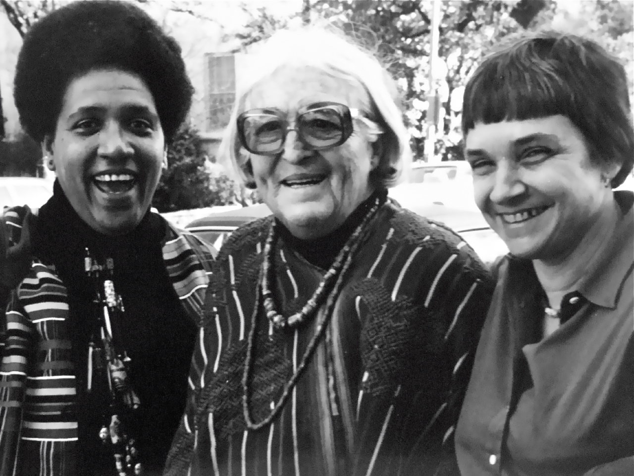 They led a writing workshop together in Austin, Texas. I was in it, and they let me take this picture of them.